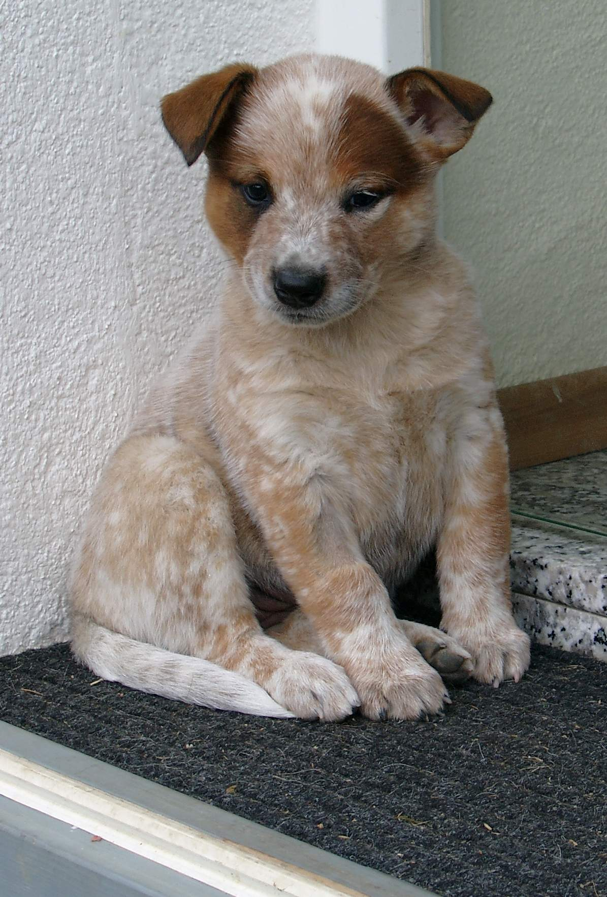 ACD puppy "Silverbarn's Noomi" from Switzerland